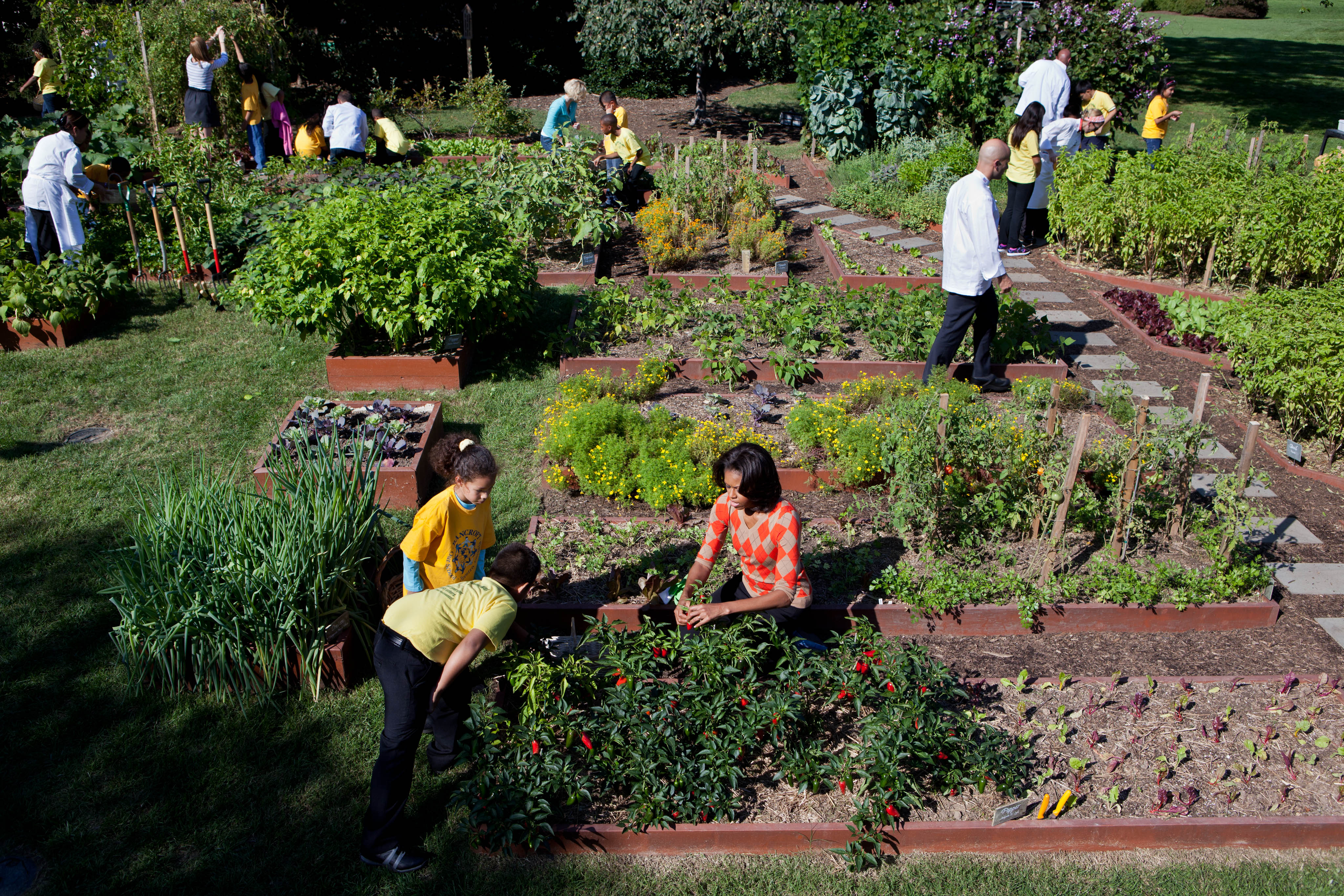 First Lady Michelle Obama and White House chefs join children from Bancroft and Tubman Elementary Schools to harvest vegetables during the third annual White House Kitchen Garden fall harvest on the South Lawn, Oct. 5, 2011. (Official White House Photo by Chuck Kennedy)